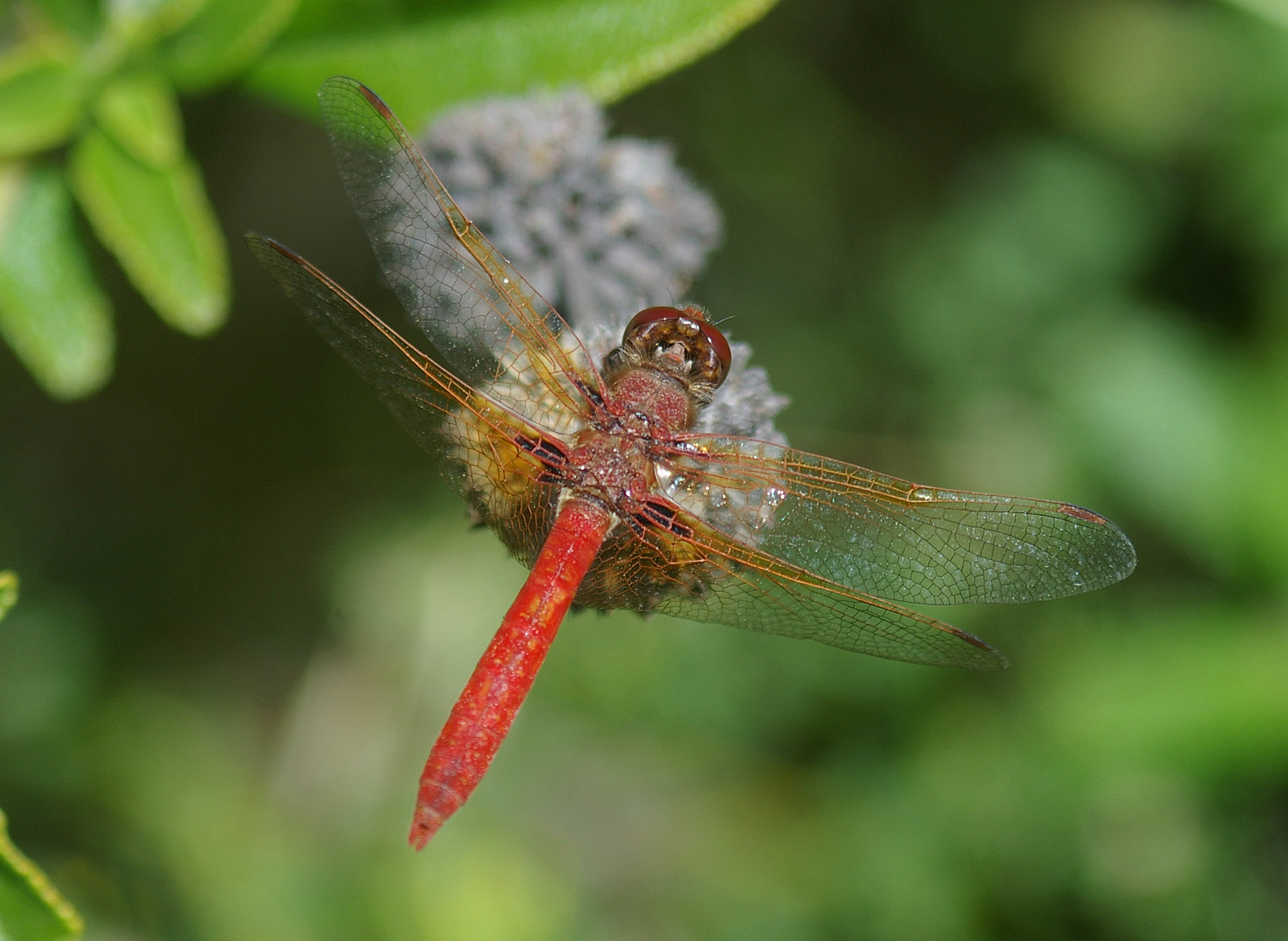 ODONATA